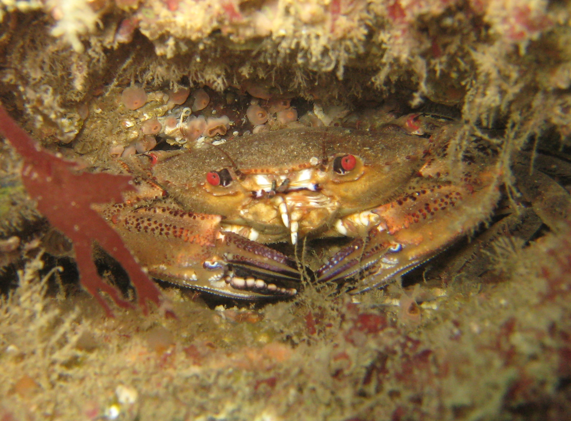 Necora puber in Saint-Quay-Portrieux